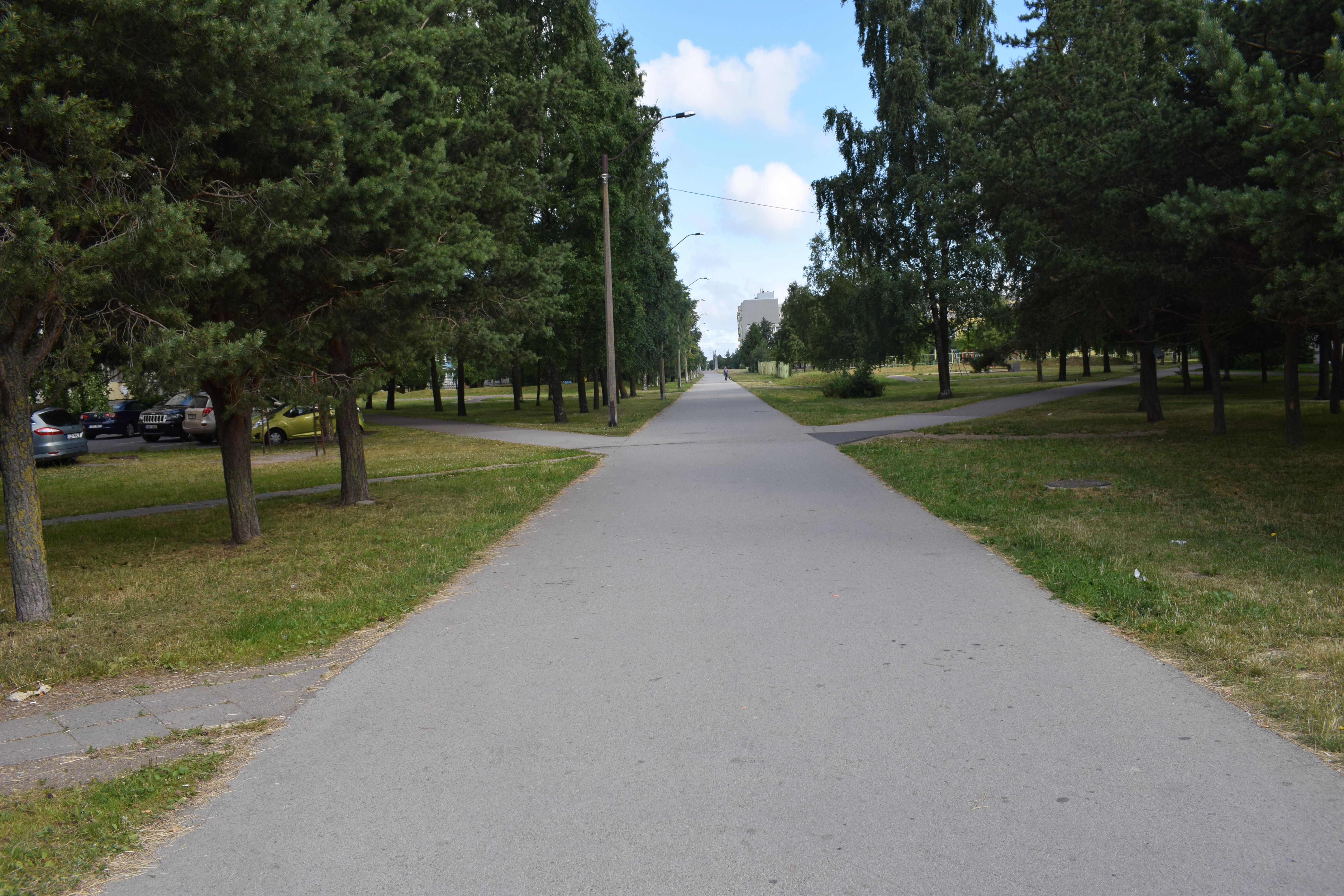 Moskva puiestee